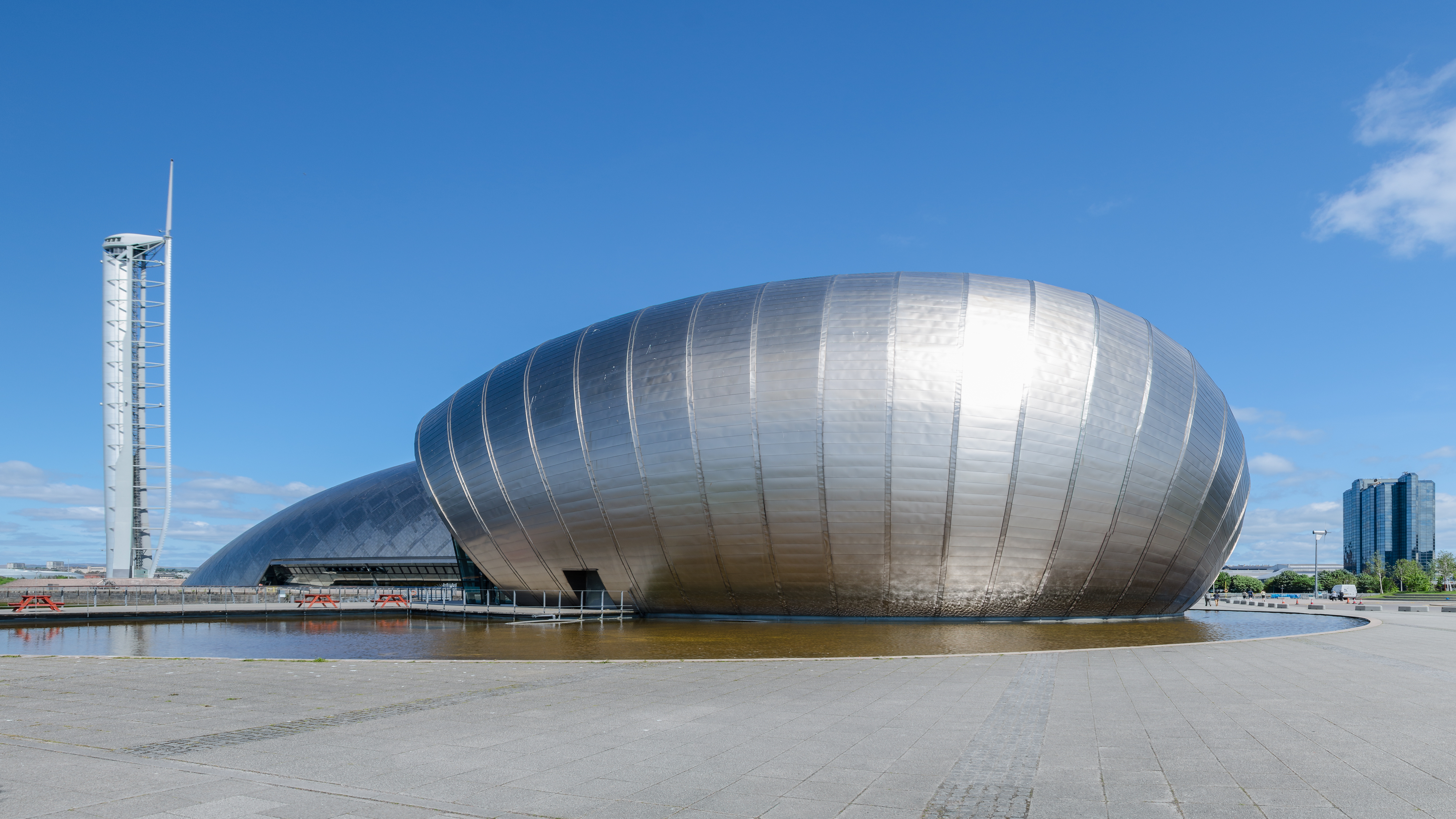 Glasgow Science Centre and TowerThe image is composed of 7 portrait shots stitched together using Photoshop.